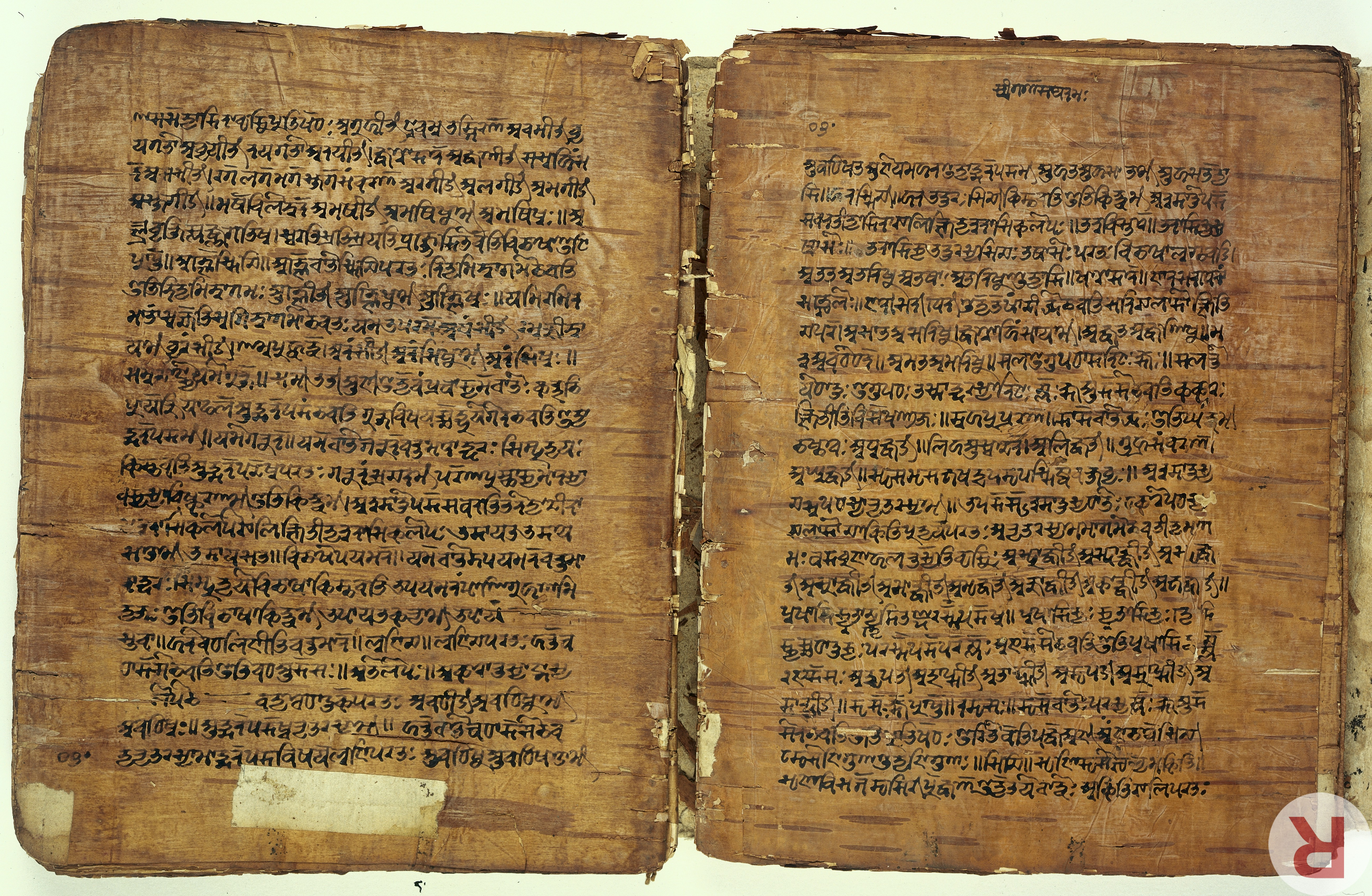 Birch bark manuscript from Kashmir of the Rupavatara, a grammatical textbook based on the Sanskrit grammar of Panini. It was composed by Dharmakirti, a Buddhist monk from Ceylon. The manuscript was transcribed in 1663 Wellcome Images Keywords: ORIENTAL; birch bark; panini; kashmir; rupavatra